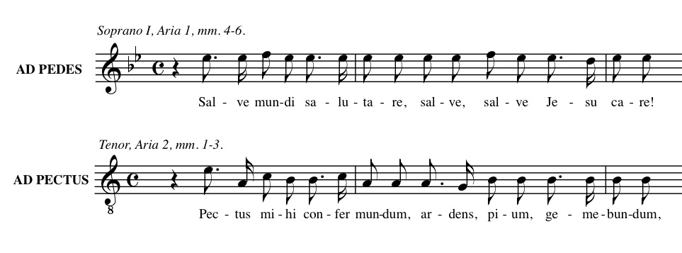 Description: An example of the rhythmic similarities between cantatas in Dieterich Buxtehude's Membra Jesu Nostri Note: Original file created on Finale 2006.r3 for Macintosh by Trisdee na Patalung This file is the corrected version of Image:Membra Jesu Nostri - Rhythm.jpg